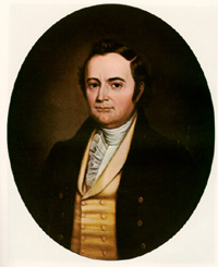 Portrait of John W. Taylor, Speaker of the United States House of Representatives